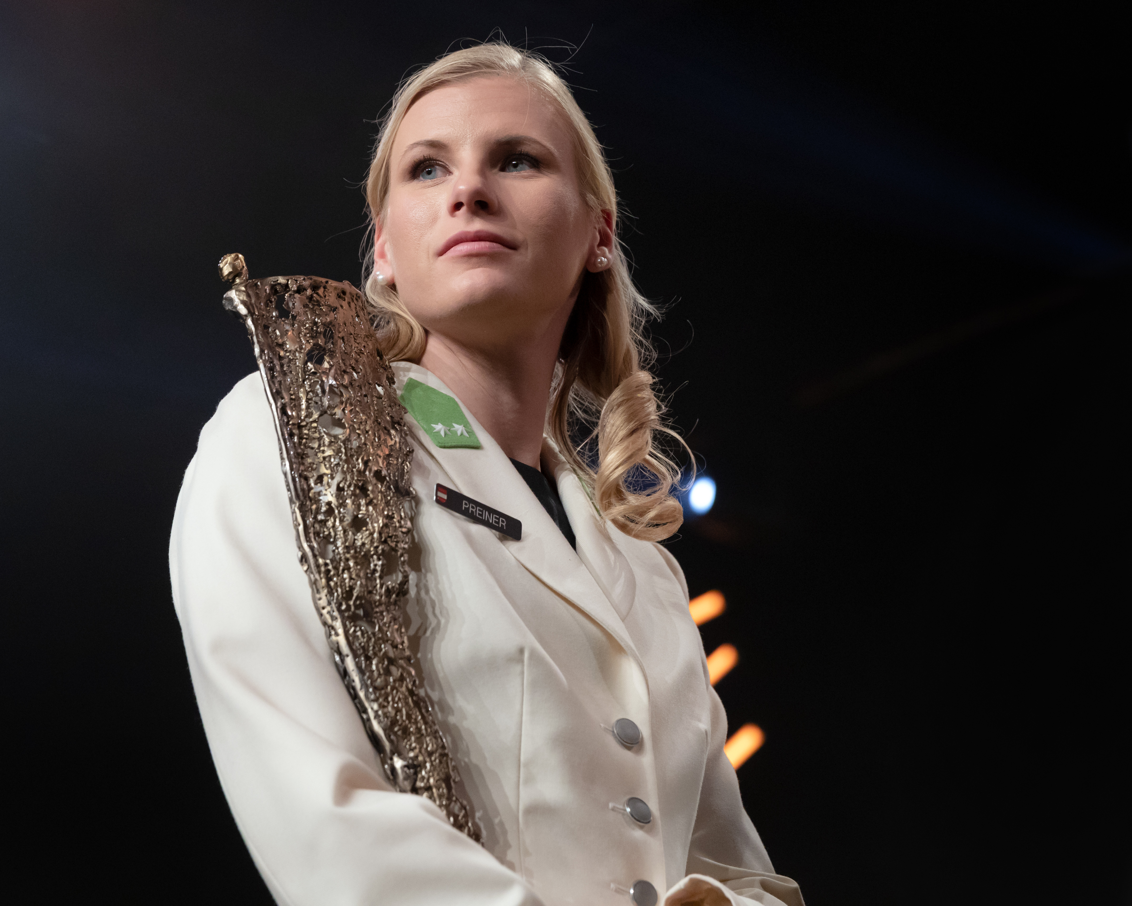 Heptathlete Verena Preiner, Newcomer of the Year (see Austria's Sports Personalities of the Year) at Marx Halle, Sankt Marx, Vienna, Austria.